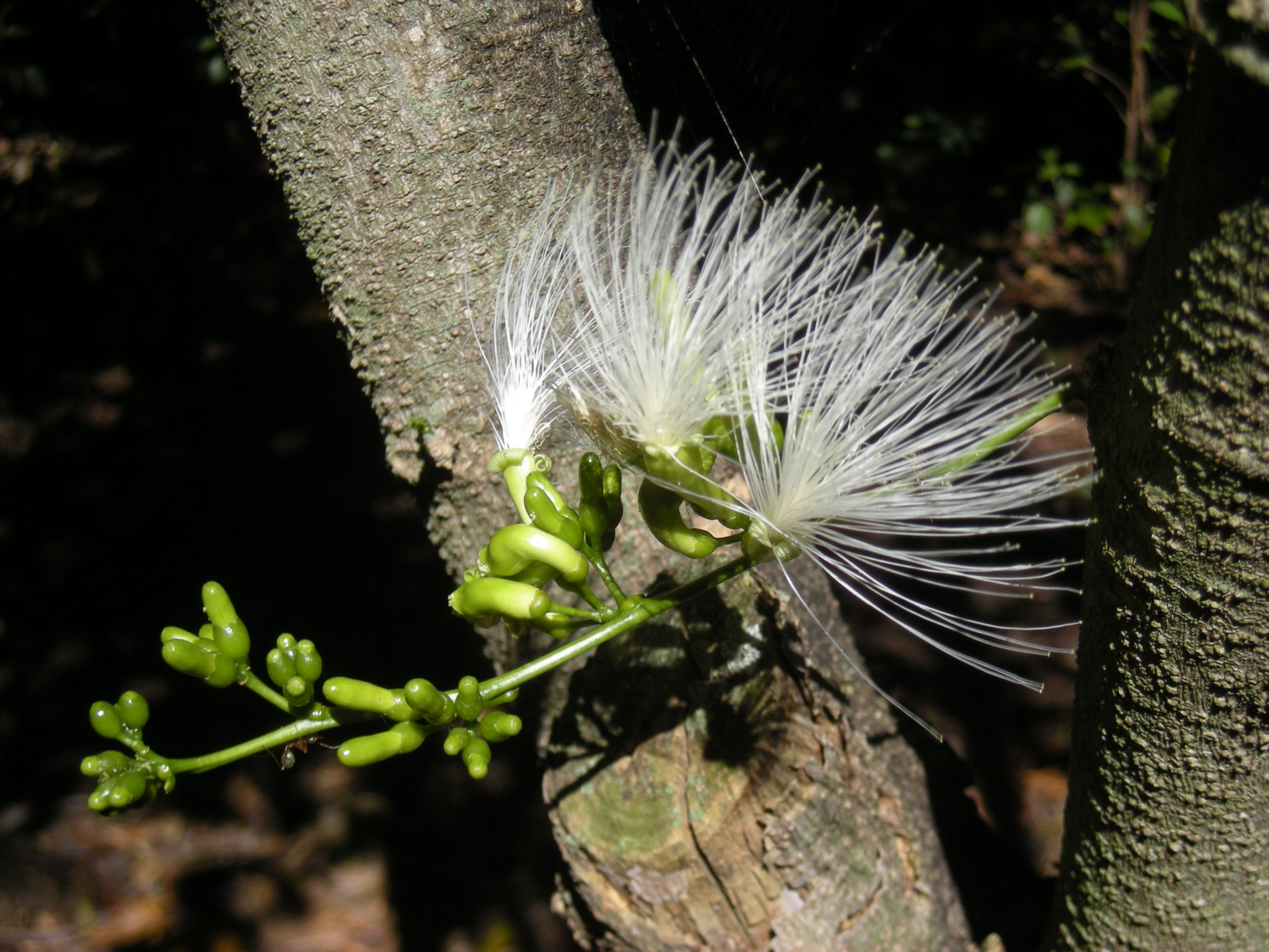 Archidendron lucyii flowers